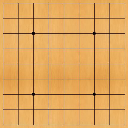 Empty 9x9 goban